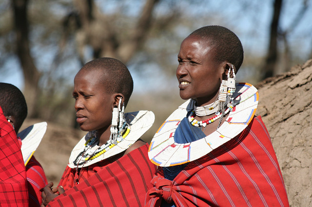 During a child naming ceremony, women wear white braces on there necks. made of mostly white beads that creates a sense of peace love and unity. they also include some long earring on the ears that makes them more beautiful. This is an image of Cultural Fashion or Adornment from Kenya